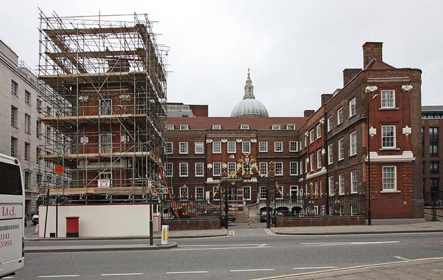 College of Arms, Queen Victoria Street, London EC4